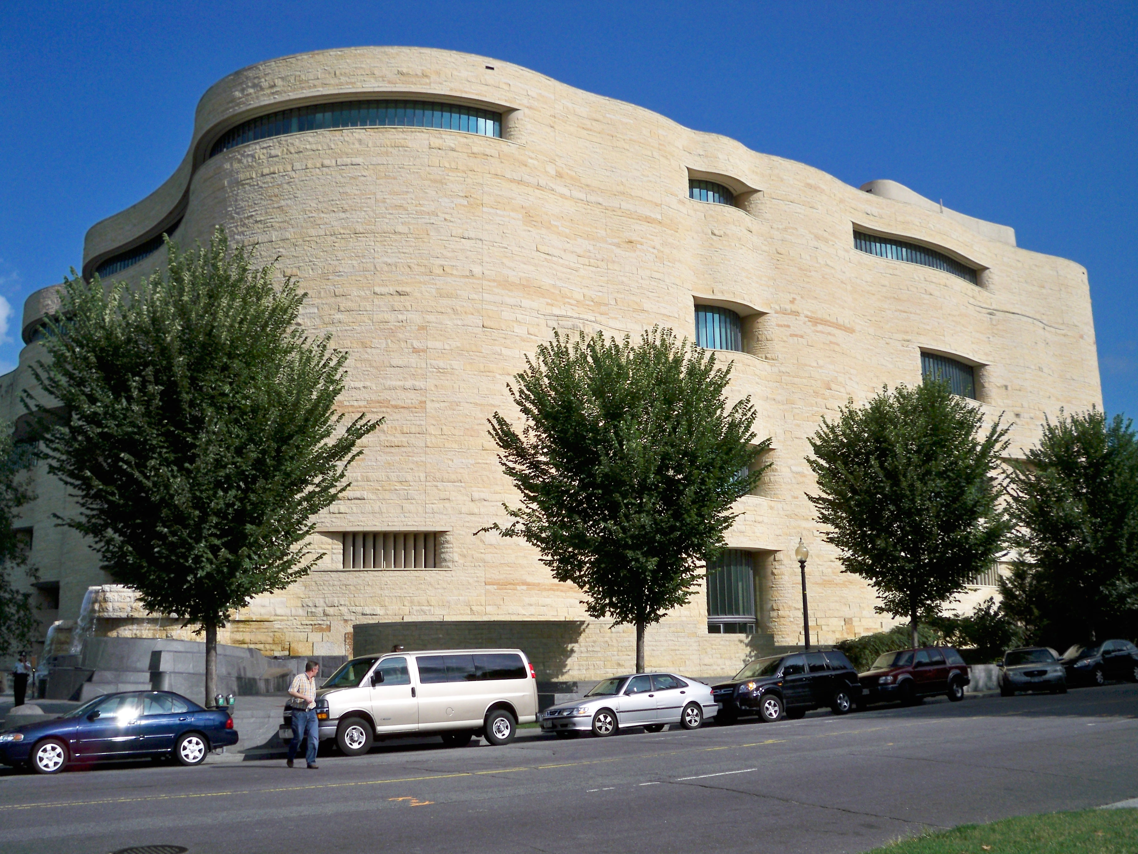 Rear view of the Smithsonian's American Indian Museum.